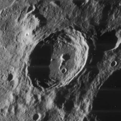 Oblique view of La Perouse, on the moon.